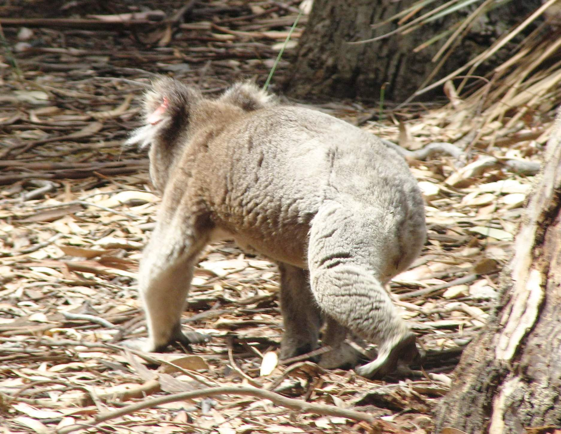 Koala on Kangaroo Island near Flinders Chase National Park